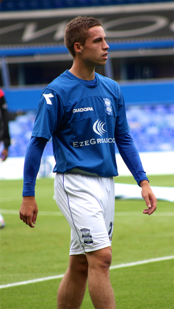 Image of Mitch Hancox, Birmingham City footballer.